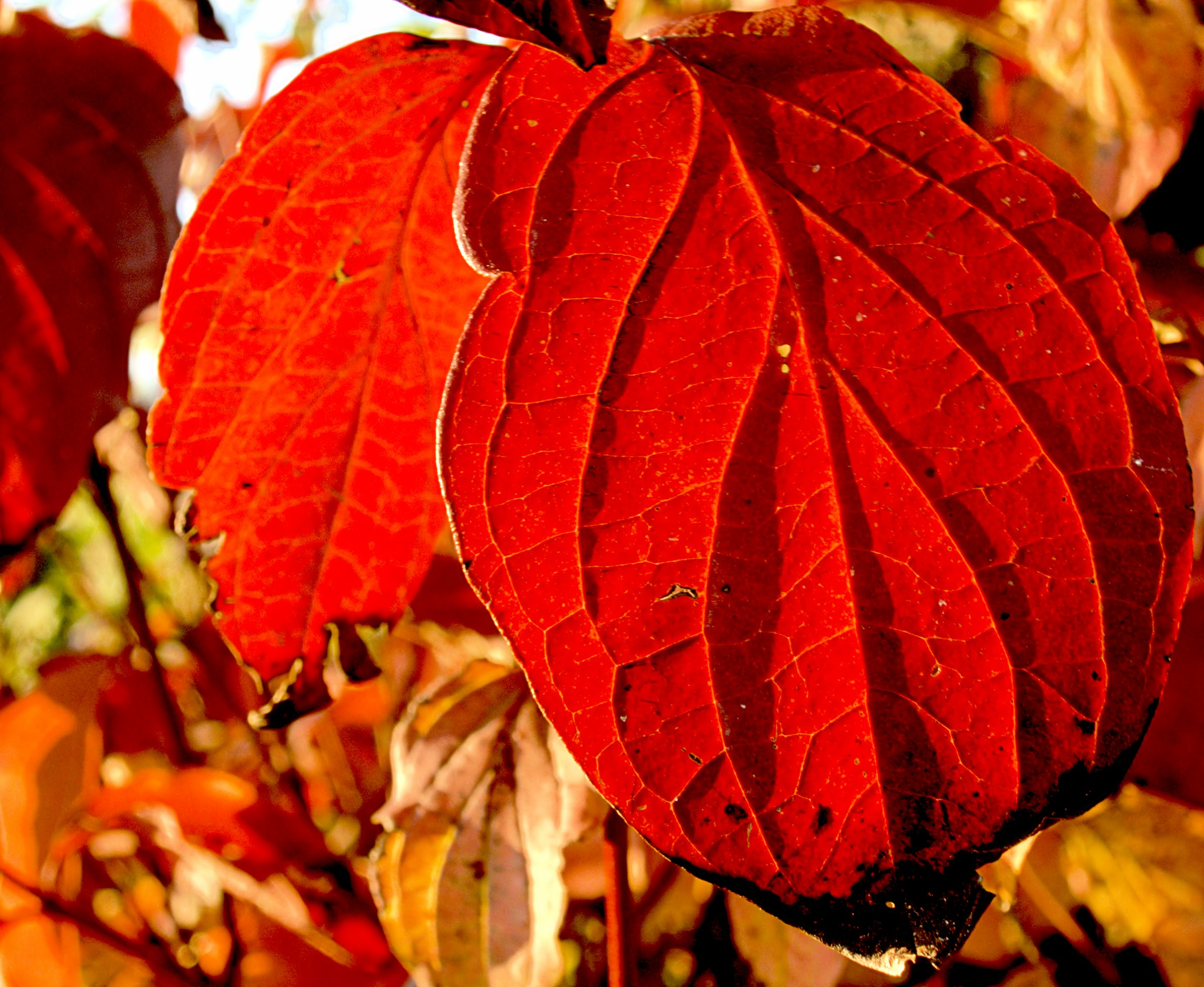 Autumn leaves. Name: Cornus sanguinea. Family: Cornaceae Location: Münster, NRW, Germany